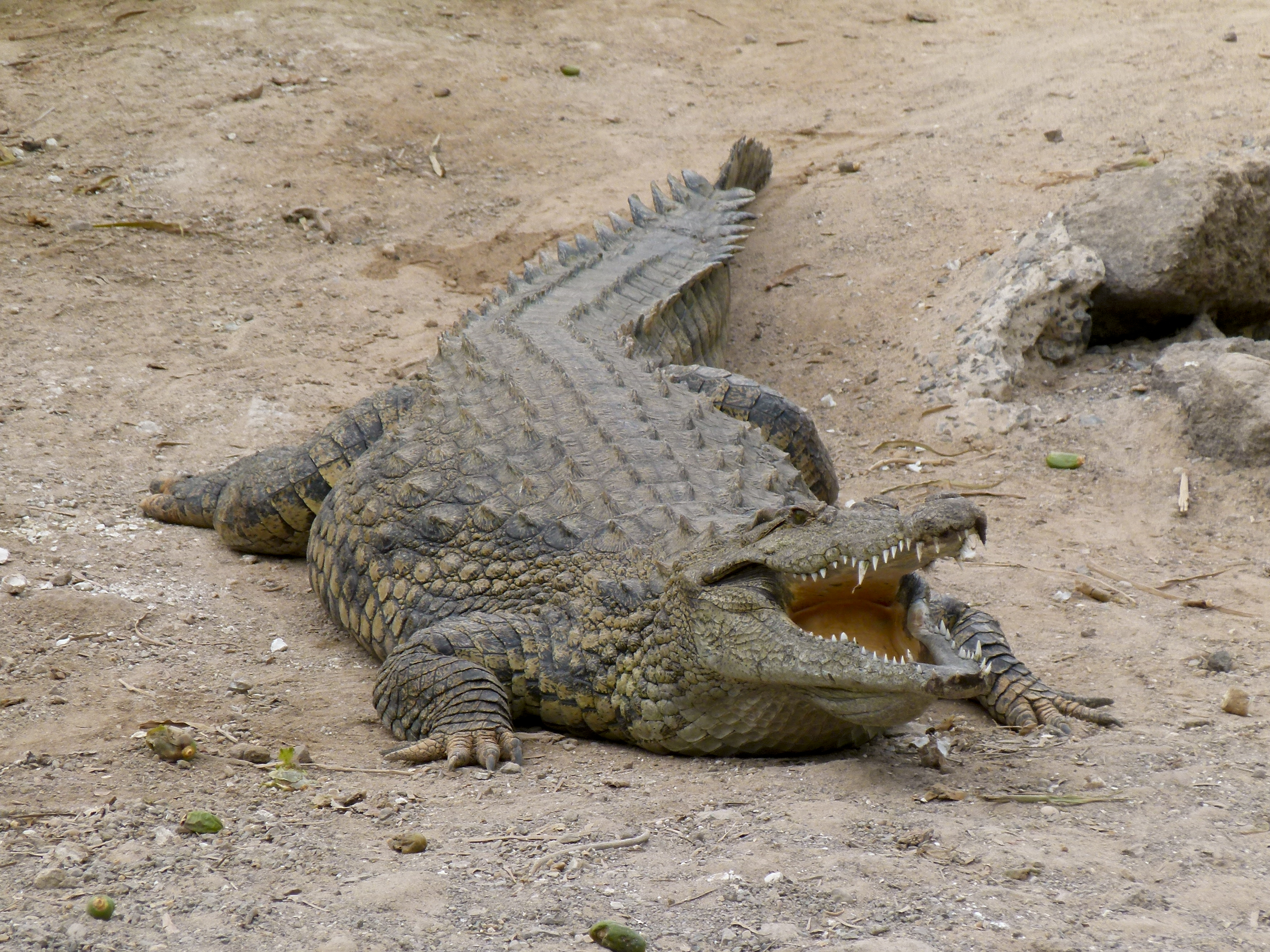 Crocodile (Crocodylus) in the Oasis Park, La Lajita, Pájara, Fuerteventura, Canary Islands, Spain